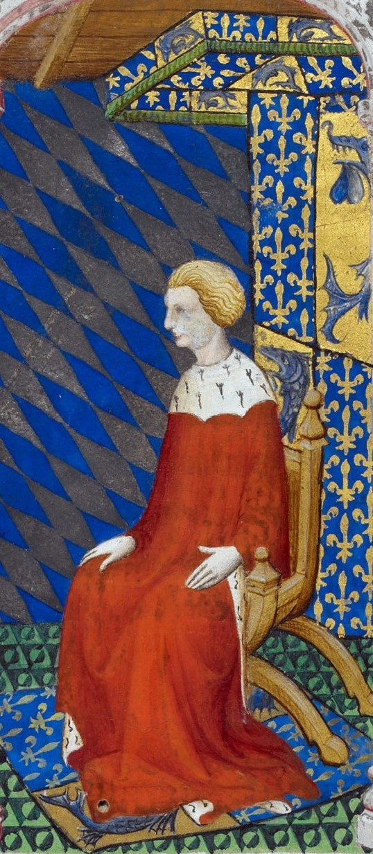 Louis de Guyenne receiving instruction from St Louis, extract, Guillaume de Nangis, Gesta Sancti Ludovici et Regis Philippi (Paris).